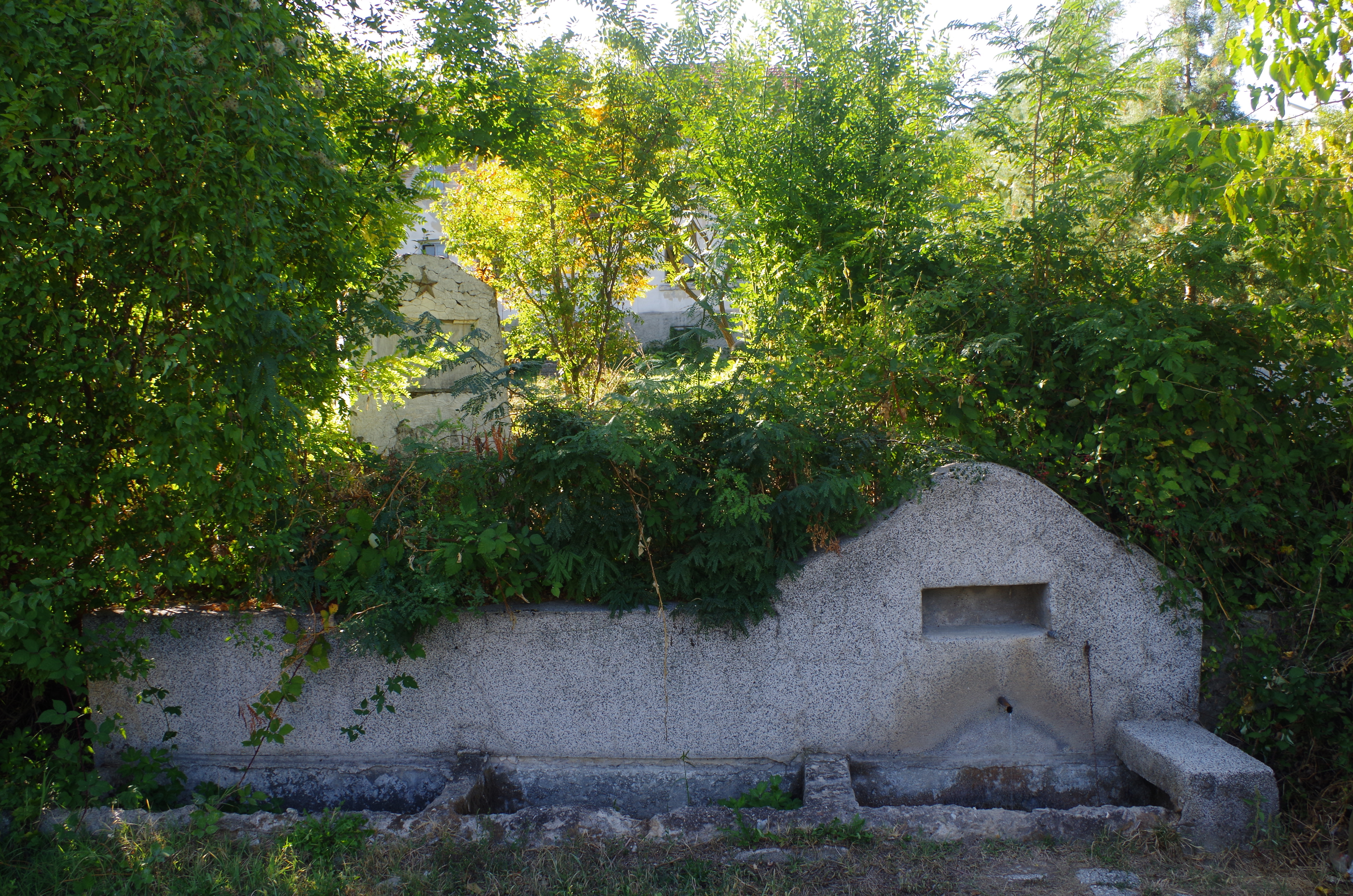 Village pump in the village of Bohula